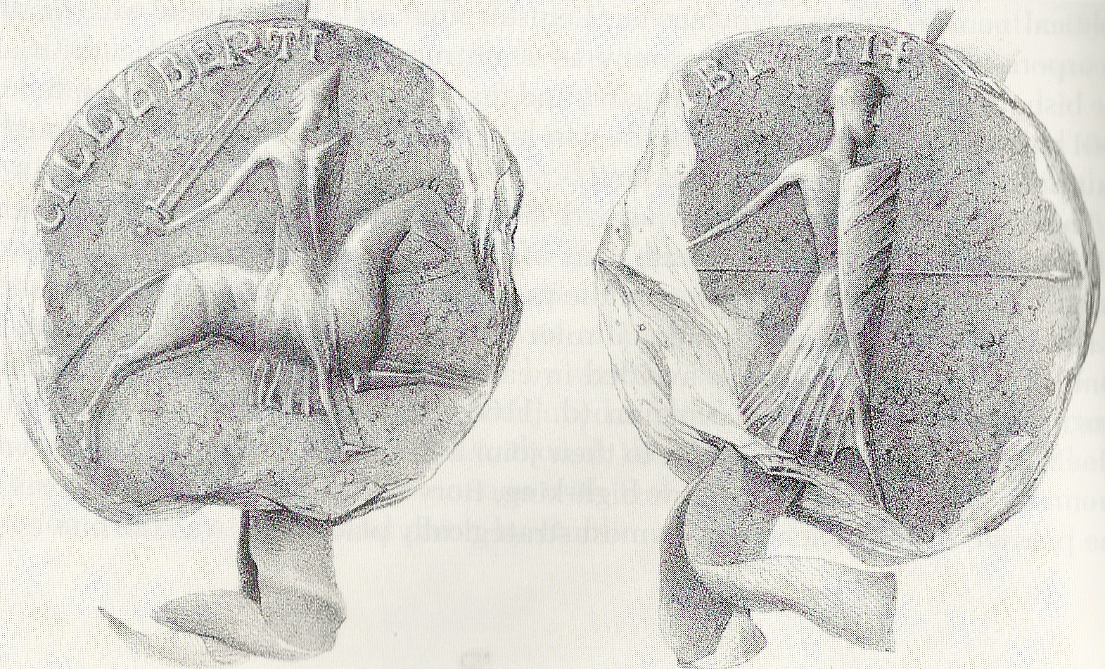 An image of the seal of Richard de Clare, Earl of Pembroke (died 1176), also known as "Strongbow". This image is a scan from The Oxford Illustrated History of Ireland (published in 1996). The image in the book is that of a 19th century drawing.